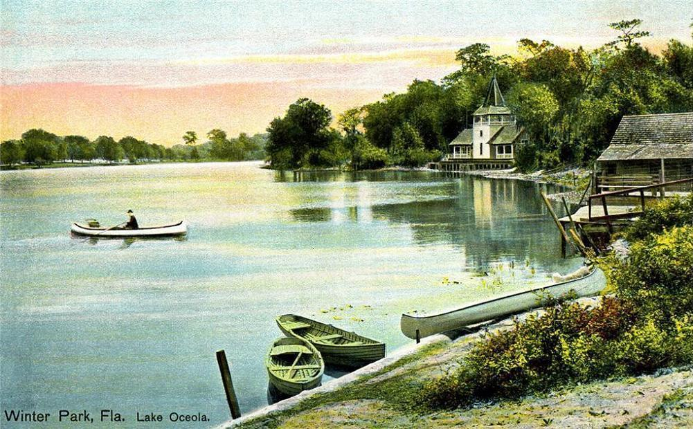 Lake Osceola, Winter Park, FL; from a c. 1906 postcard published by the Hugh C. Leighton Company, Portland, Maine.